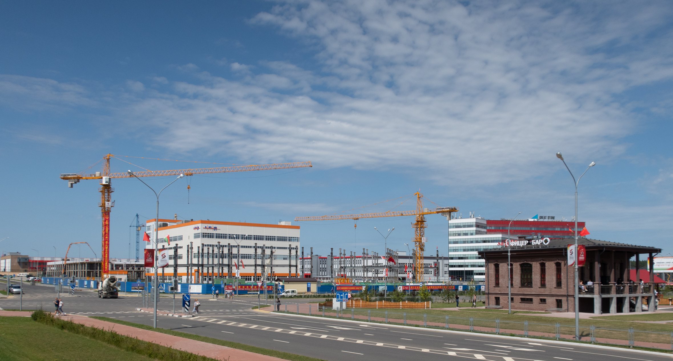 "Great Stone" industrial park (Belarus)